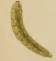 Stainton’s Natural History of the Tineina (1855–1873): Ectoedemia argyropeza